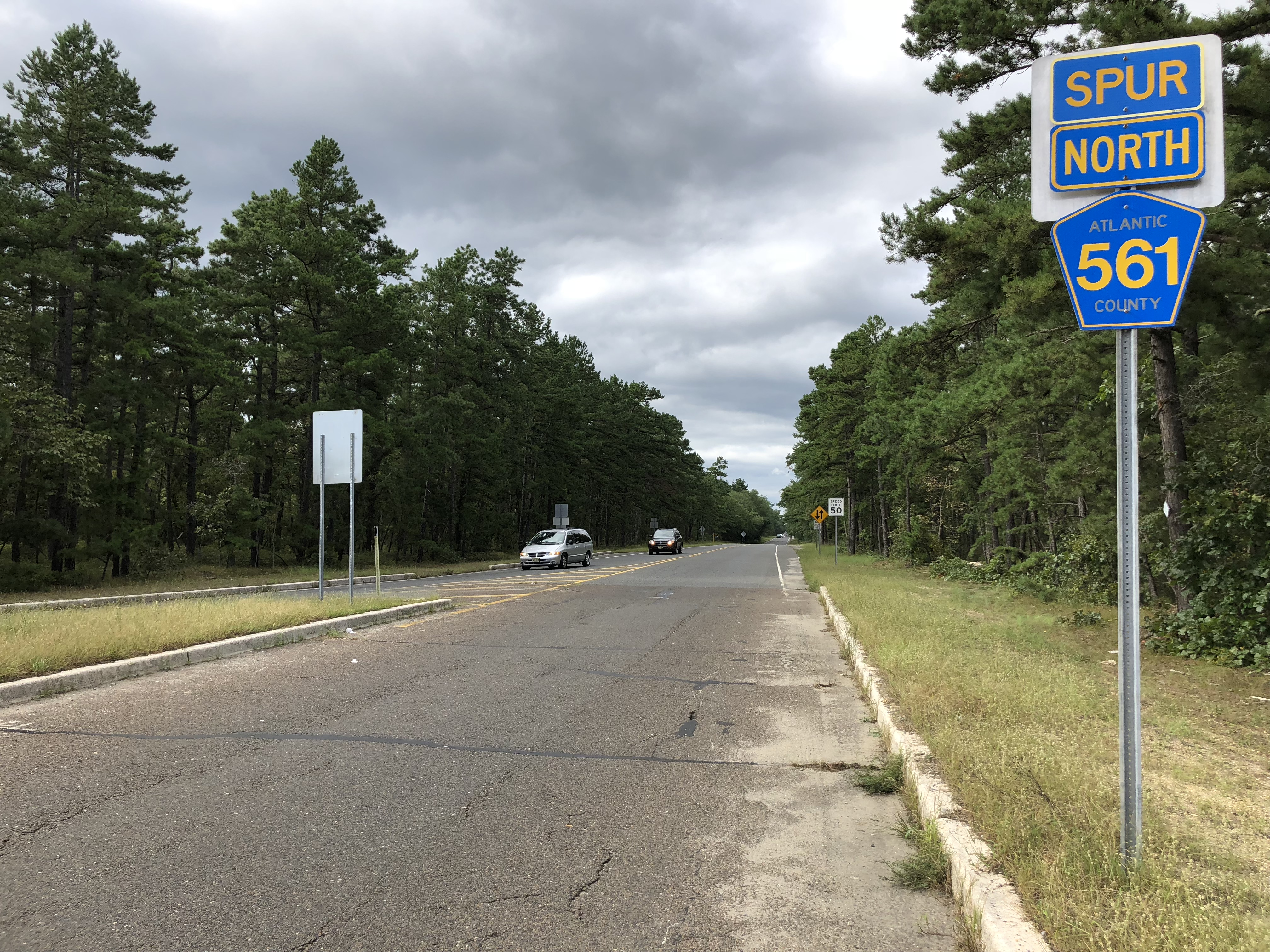 View north along New Jersey State Route 73 and Atlantic County Route 561 Spur (Mays Landing Road) just north of 8th Street in Folsom, Atlantic County, New Jersey